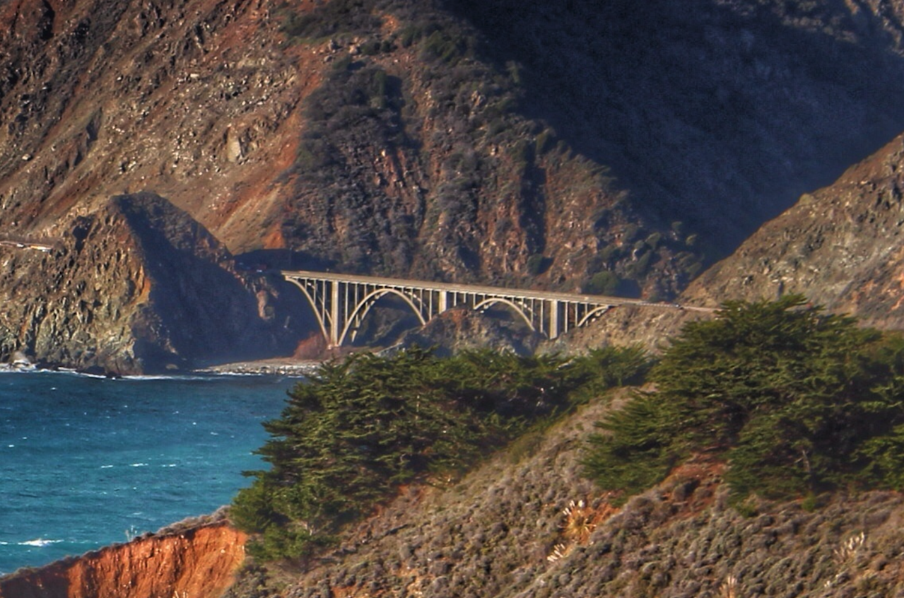 Cropped version of File:Big Creek Bridge (Big Sur).jpg